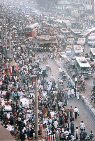 Picture of Gulistan Crossing in Dhaka